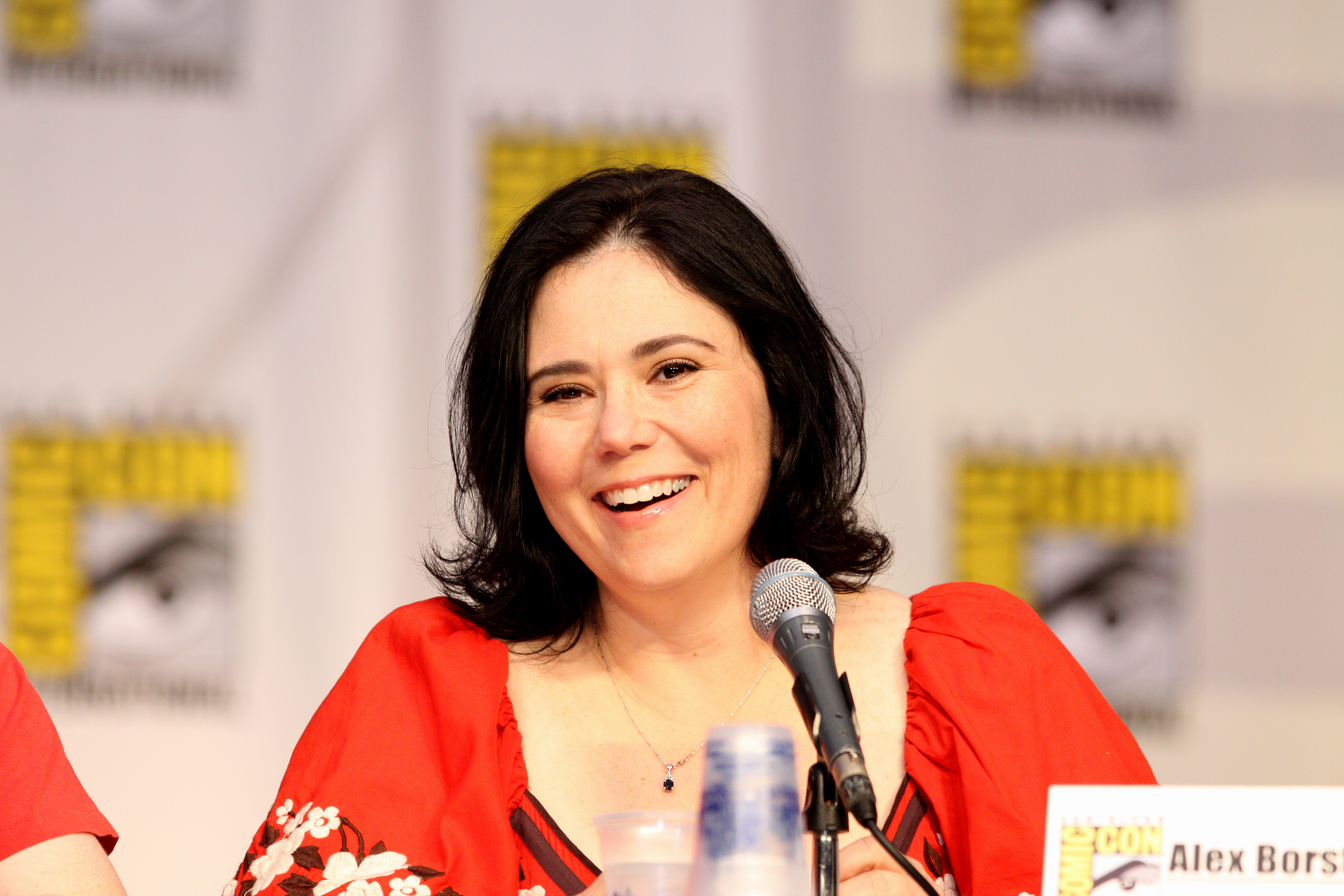 Actress Alex Borstein on the Family Guy panel at the 2010 San Diego Comic Con in San Diego, California.